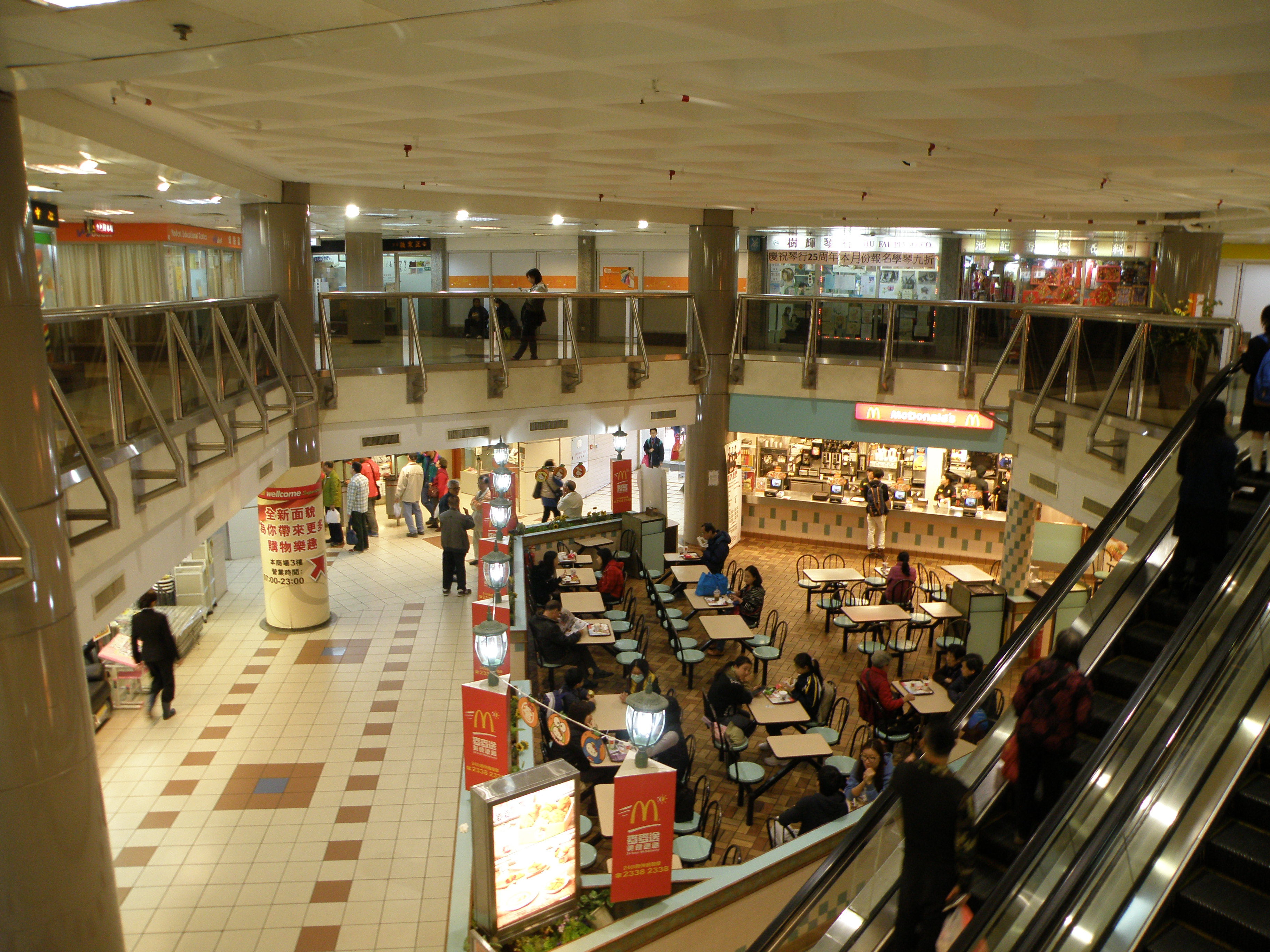 Wan Tsui Shopping Centre in Chai Wan, Hong Kong.